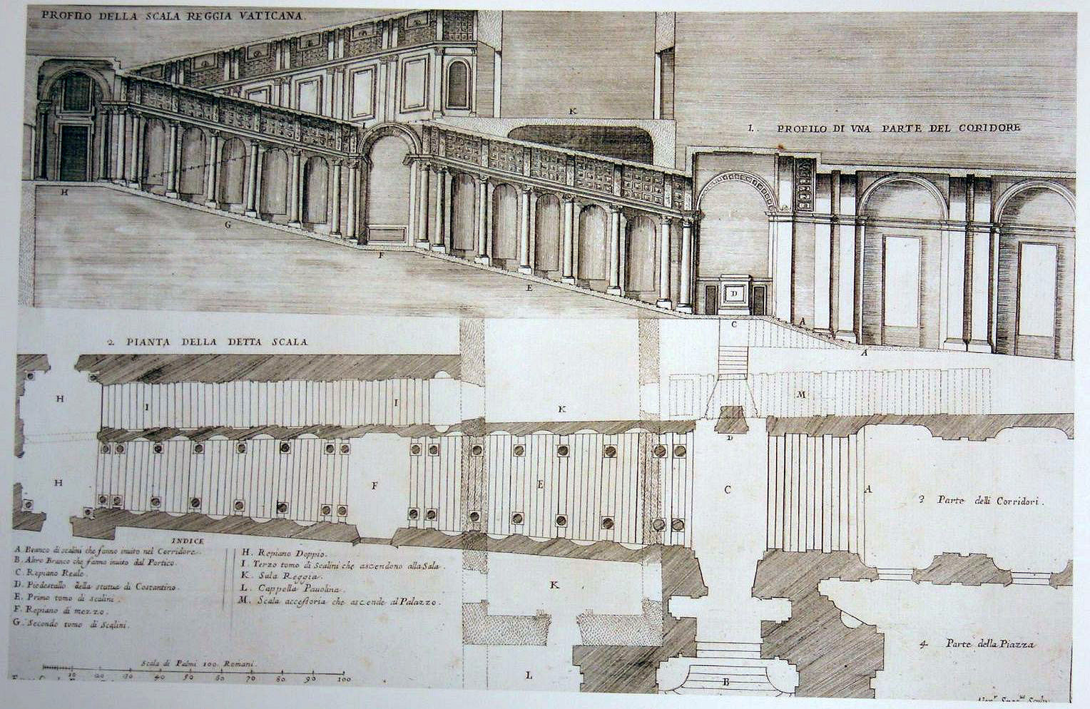 Reproduction of plan of Scala Regia. Engraving from Templum vaticanum et ipsius origo, Rome, 1694, p. 239. Complete scan of the book available here (the file however was retrieved from the source below). A - Landing in the corridor leading to the Bronze Door. B - Landing leading to the Portico of Saint Peter's Basilica. C - Platform D - Pedestal of the equestrian statue of Emperor Constantine the Great E - first flight of stairs F - intermediate landing G - second flight of stairs H - intermediate half landing I - third flight of stairs leading to the Sala Regia K - Sala Regia L - Cappella Paolina (Pauline Chapel) M - Stairs leading up to the Apostolic Palace